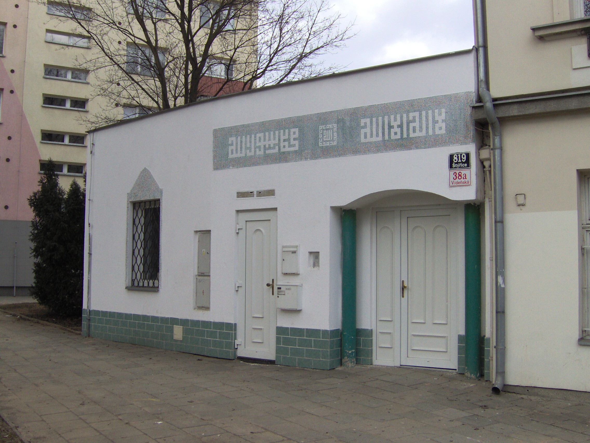 Mosque, Brno, Czech Republic